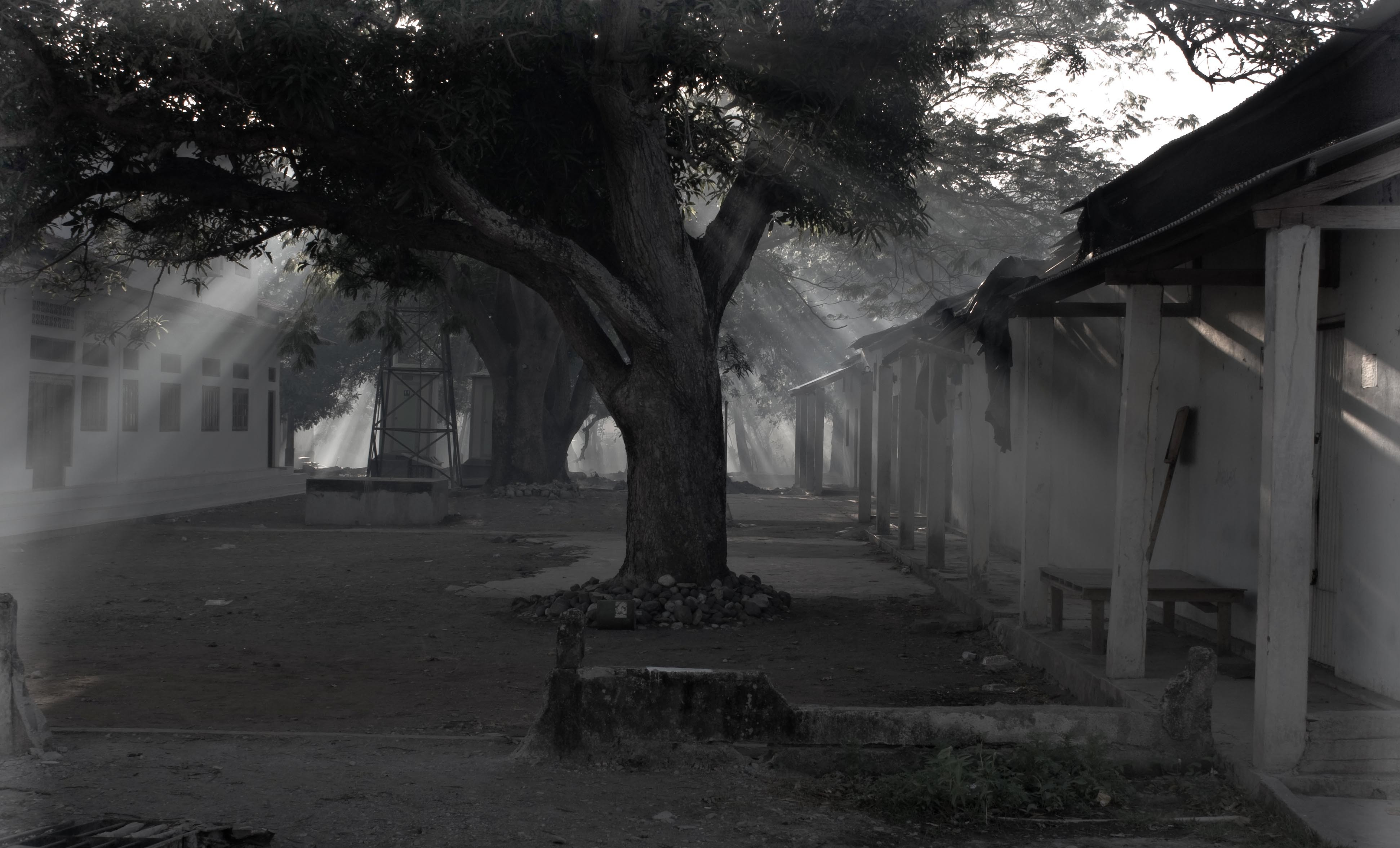 Oecussi town (Pante Macassar). The town was getting a clean up that morning and fires were lit to burn off the rubbish.